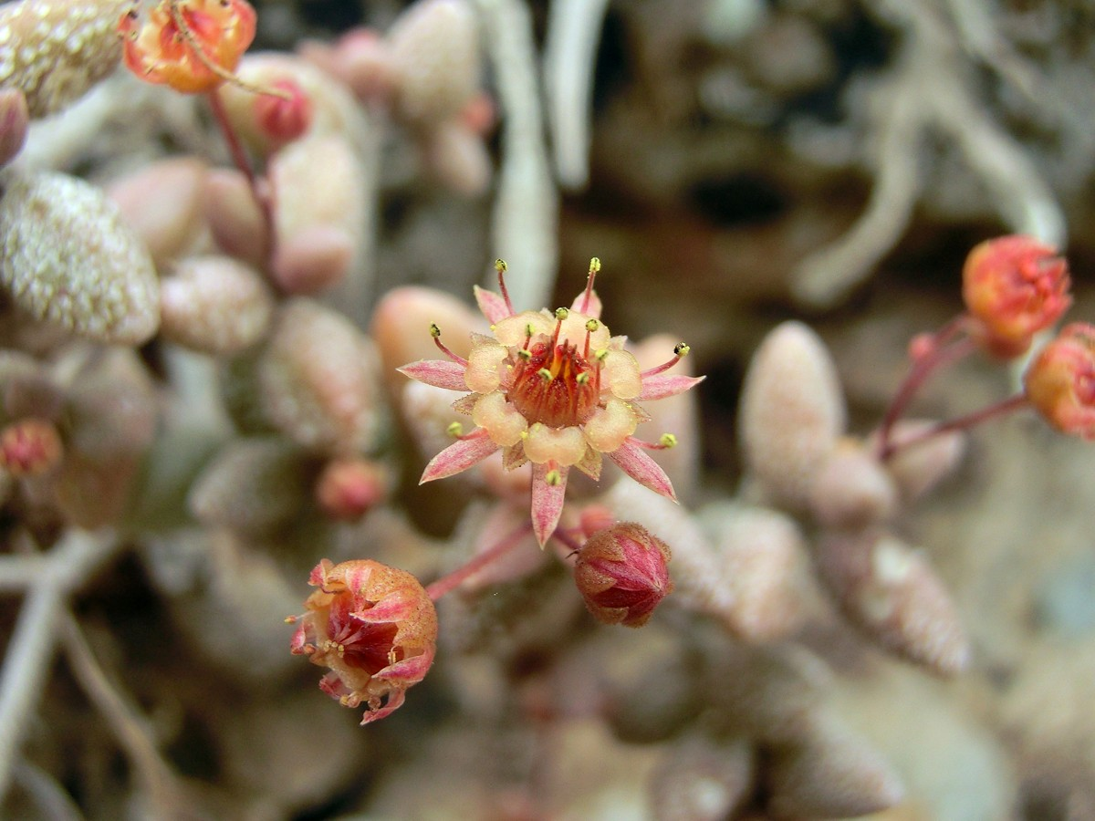 Monanthes laxiflora, flower. N Tenerife, Barranco de Ruiz (E of San Juan de la Rambla), on rocks, ca. 300 m.